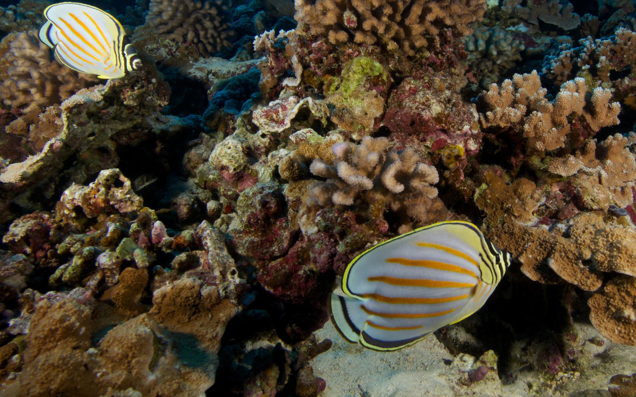 Molokini Islet there is array of life that is beautiful including these.